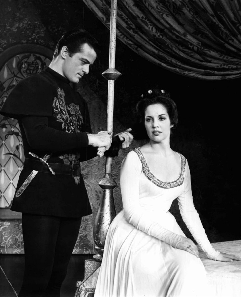 Photo of Robert Goulet as Lancelot and Janet Pavek as Guenevere from the Broadway production of Camelot. Pavek assumed the role in 1962.